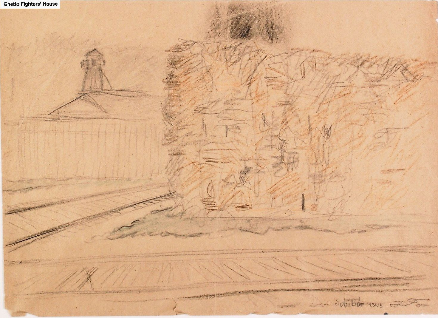 On the back of this drawing is written in Polish with pencil: "Camp Sobibor. A high fence of braided, dry branches hides the gas chambers from view. A branch of the railway leads to the camp. Only half of the wagons fit on it. The transport must be divided in two and the unloading takes 20 minutes."